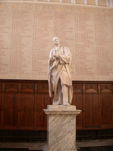 Statue of Isaac Newton, Trinity College Chapel Probably Trinity's most famous alumnus, Isaac Newton (1642 - 1726 O.S.) came up in 1661. The pedestal modestly claims on his behalf "Qui genus humanum ingenio superavit" - "Who surpassed the human race in genius". Part of the college's WWII Roll of Honour is seen behind.